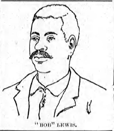 Robert Lewis, 1892 lynching victim